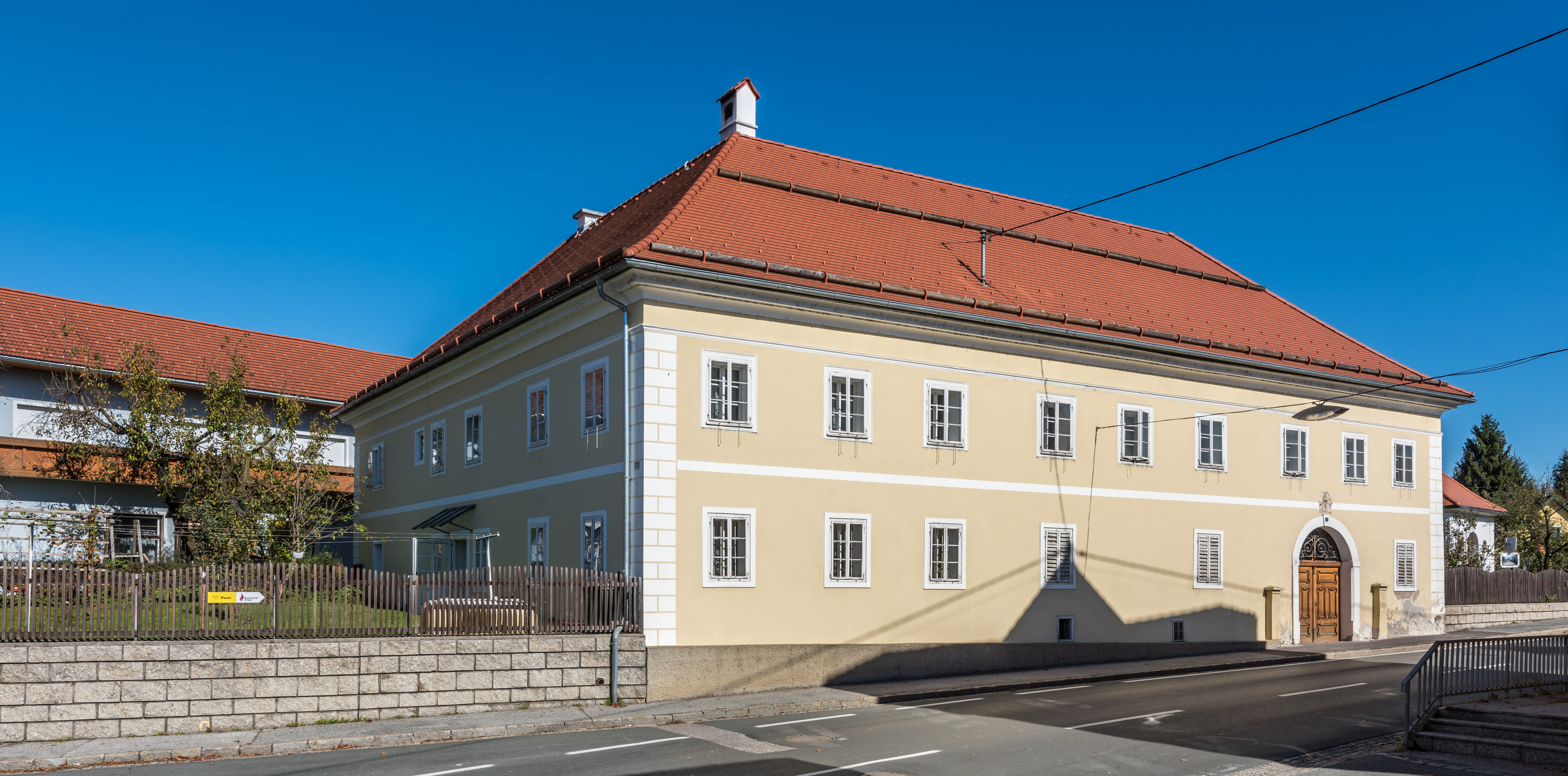 Provost manor on Bleiburger Strasse #11, market town Eberndorf, district Völkermarkt, Carinthia, Austria, EU